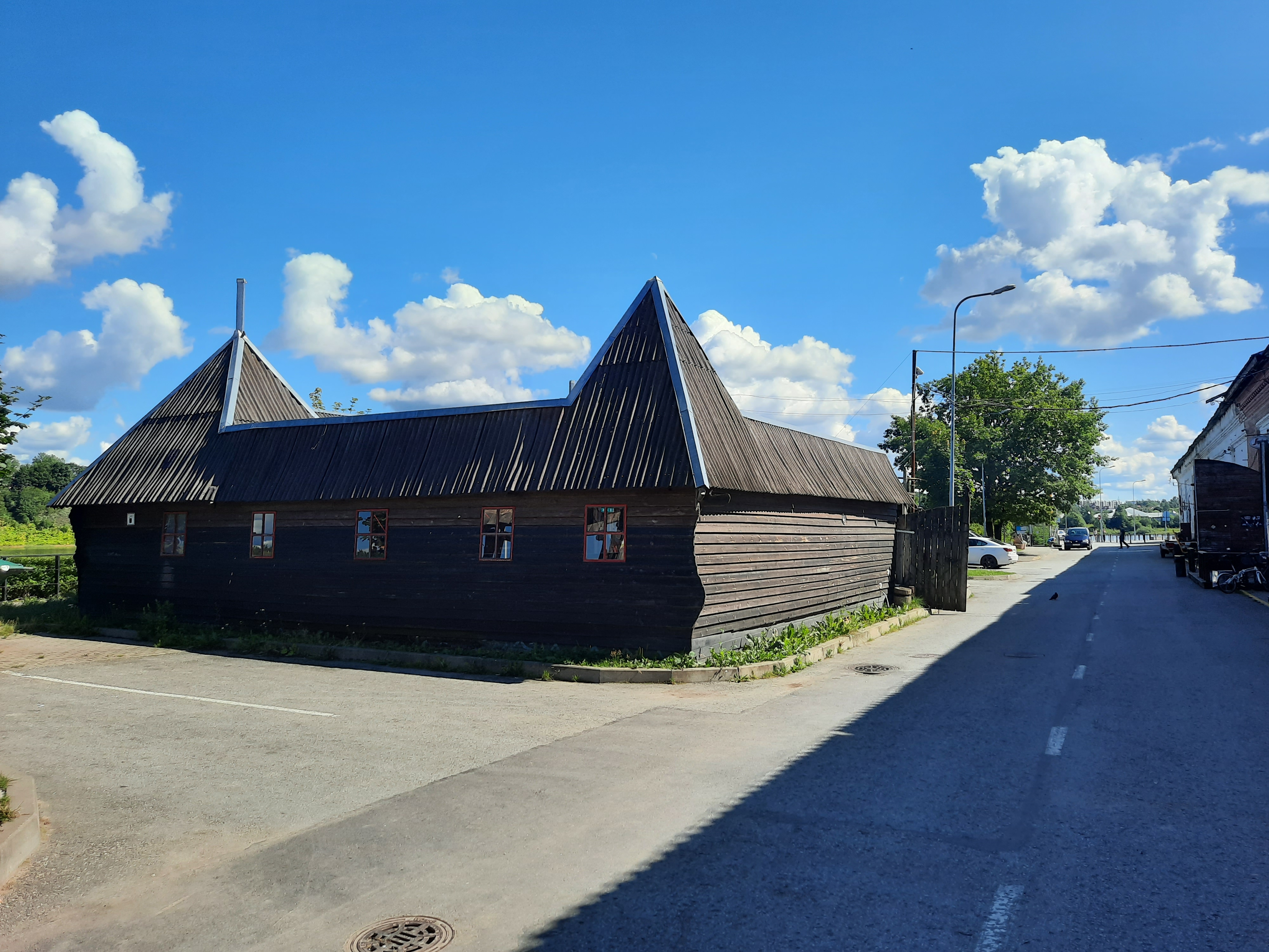 Buildings on Jõe street, Narva